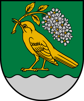 Coat of arms of Viļāni Municipality, Latvia.